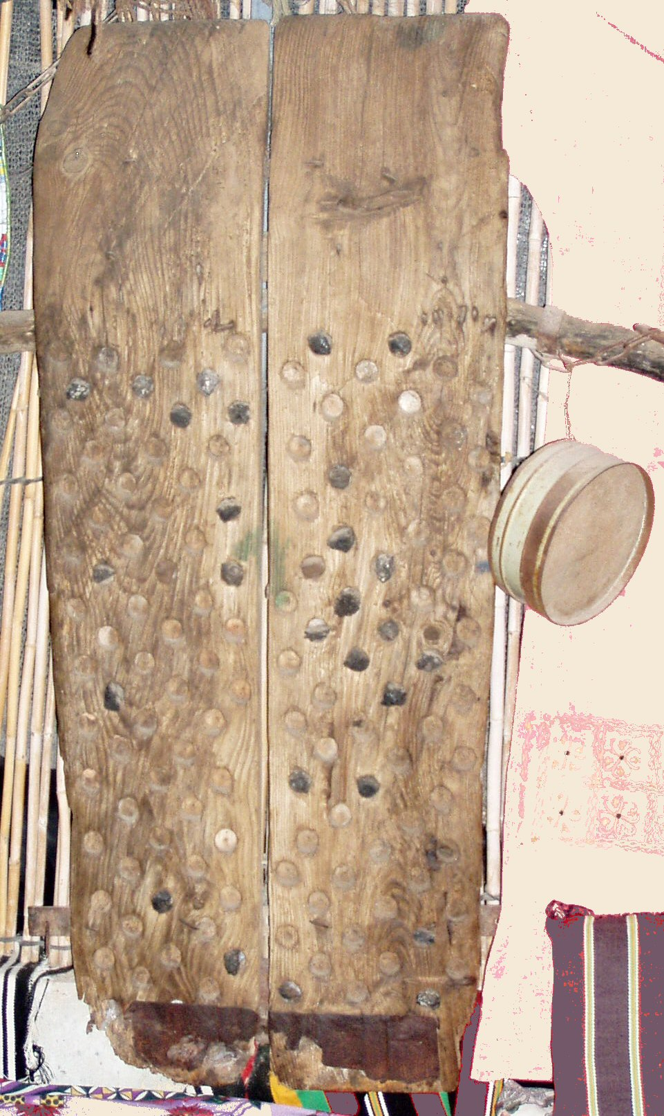 Threshing sledge